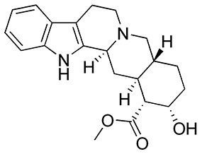 Chemical structure of Yohimbine Selfmade by cacycle